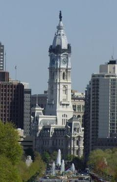 Taken in Philadelphia, Pennsylvania, in April 2006. The Benjamin Franklin Parkway leading to Logan Circle and Philadelphia City Hall, as seen from the steps of the Philadelphia Museum of Art.